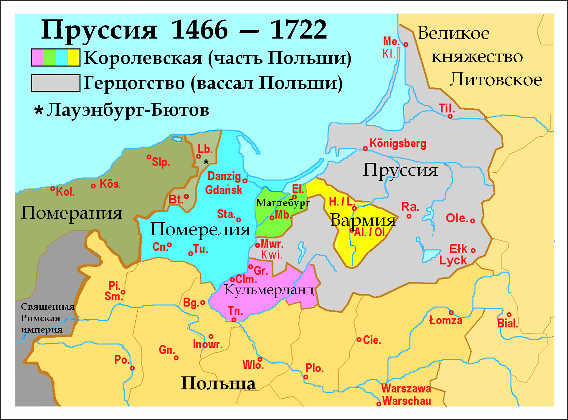 Map of Prussia 1466-1772. Russian version